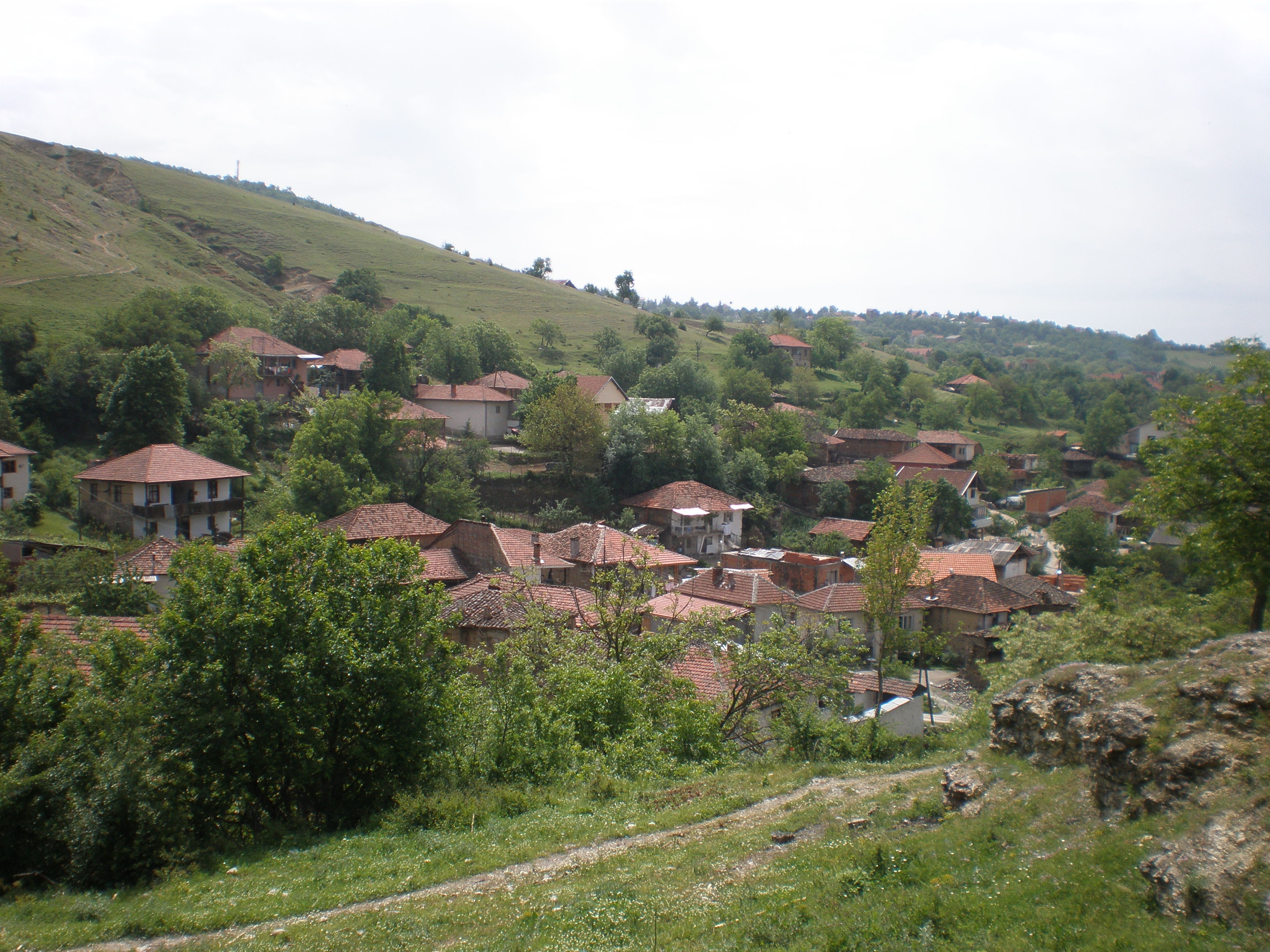 View of the village of Ljubanci, Macedonia